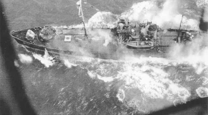 Japan Navy secret military ship Kinesaki, near the Mili Atoll